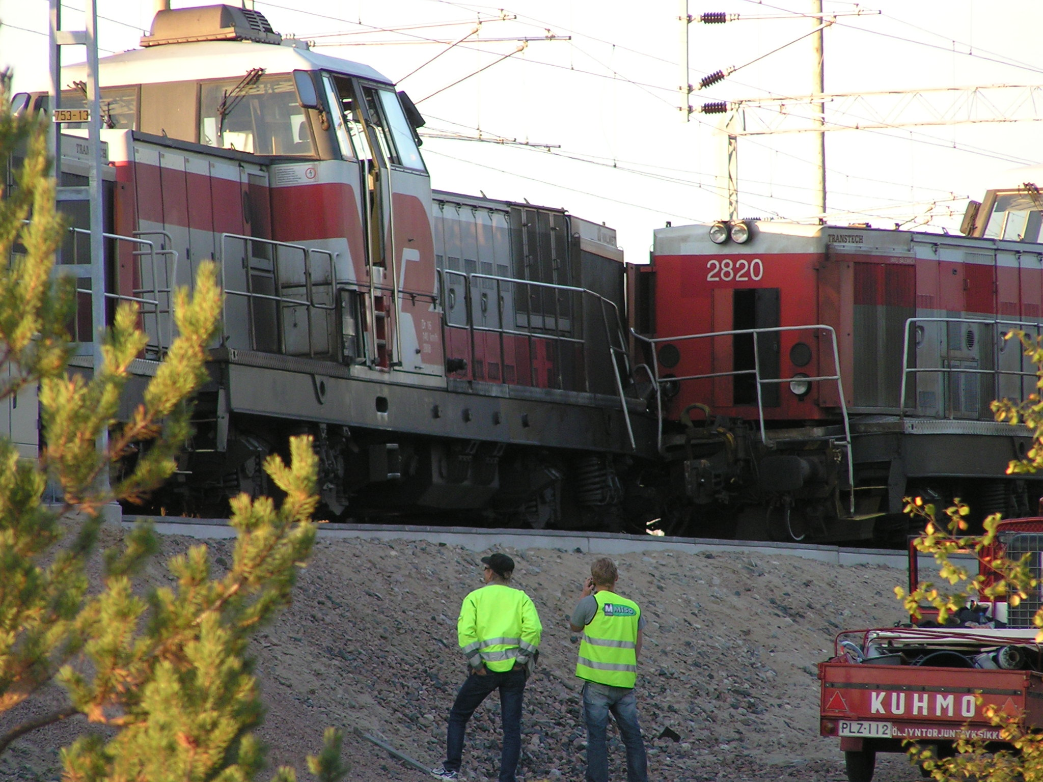 Collision of six Dr16 class locomotives in Vartius, Kuhmo, Finland.